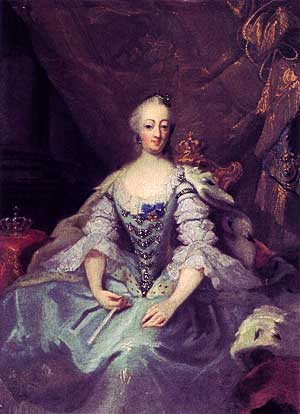 Sophie Magdalene of Brandenburg-Kulmbach (1700-1770), Queen of Denmark